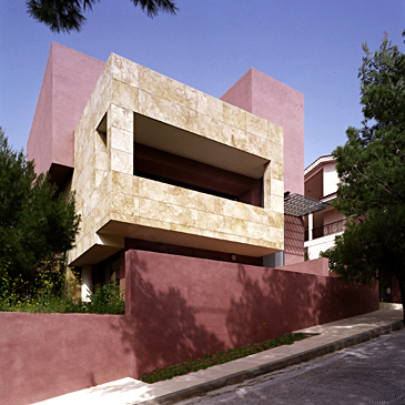 Konstantinidis Residence at Kifissia, Athens